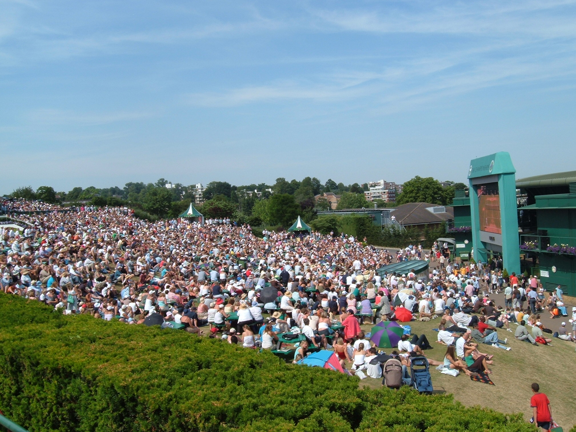 Contrary to popular belief, this hill has always been named Aorangi Terrace, not Henman Hill. People generally sit here and watch the main matches on the large screen, though why one would watch on TV when coming so close to the live action is hard to understand. (Response: Because the 14,000 seats on Centre Court are sold out? The cost of a finals match on Centre Court?)